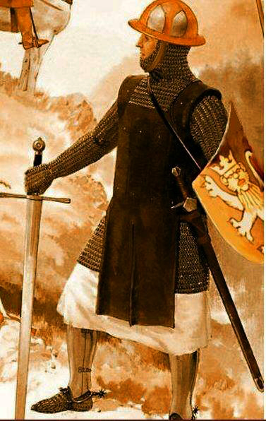 Raymond de Lavoies infantry soldier of the Armenian Kingdom of Cilicia.